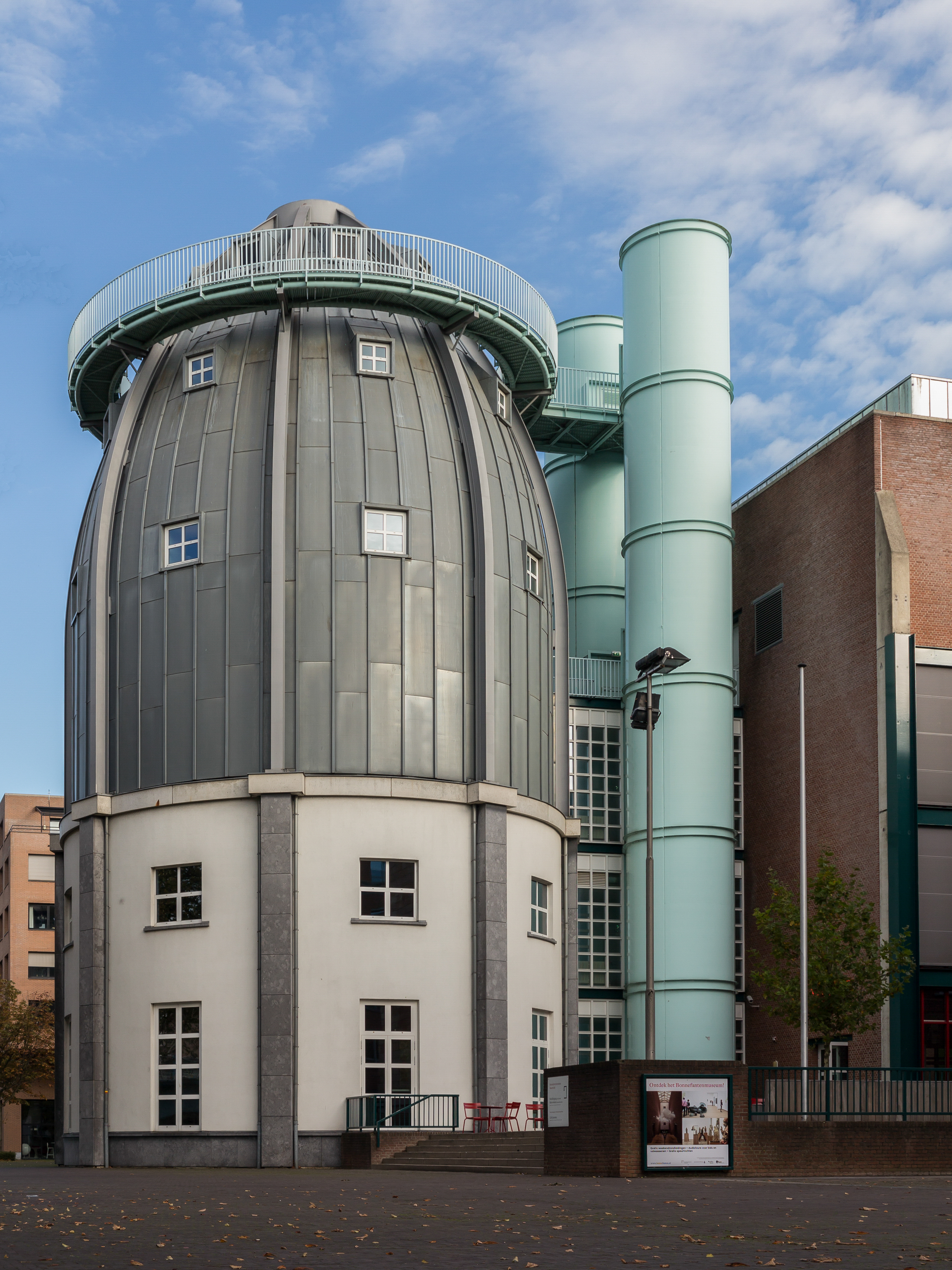 Maastricht, museum: het Bonnefantenmuseum